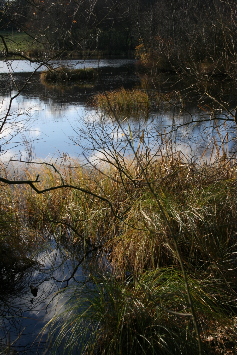 The source of Denmark's longestmost water-abounding river, Skjernå.